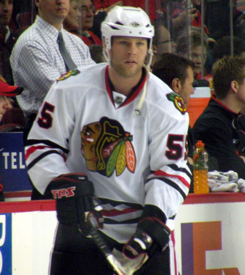 Chicago Blackhawks forward Ben Eager during warm up prior to a National Hockey League playoff game against the Calgary Flames, in Calgary.